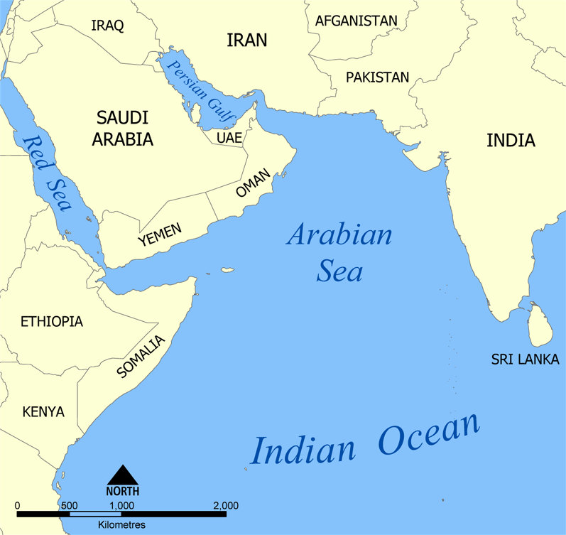 A map showing the location of the Arabian Sea in the Indian Ocean. Created by NormanEinstein, Jully 19, 2005.